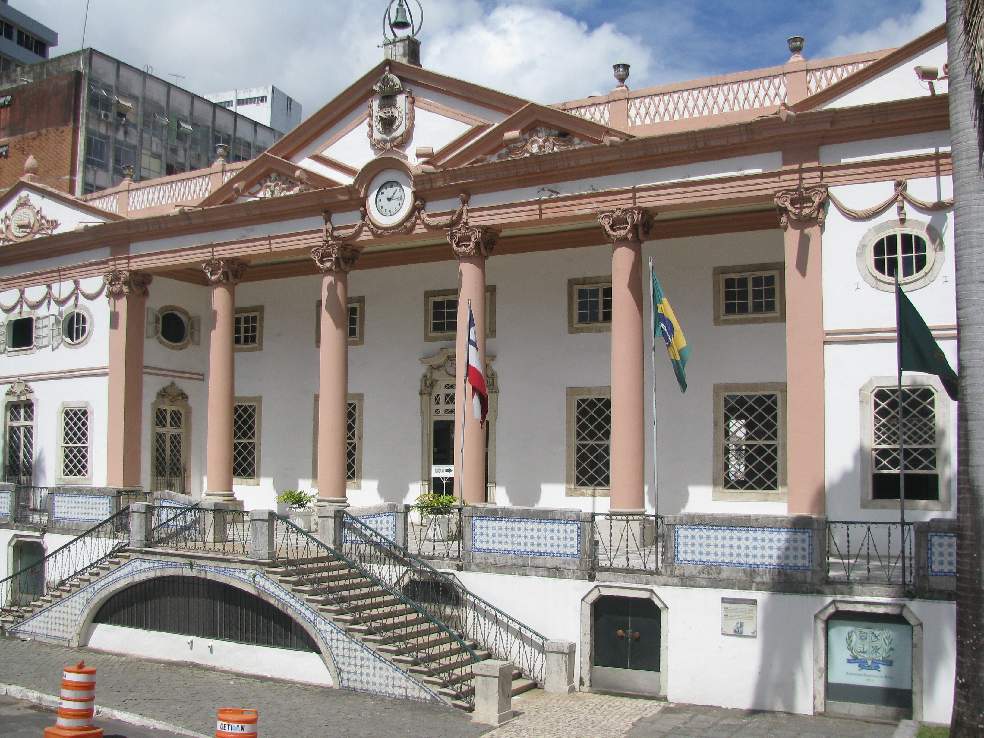 Neoclassic building of the Associação Comercial da Bahia (early 19th century), Salvador, Brazil